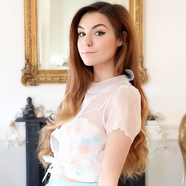 A photo from Marzia Kjellberg’s Instagram account